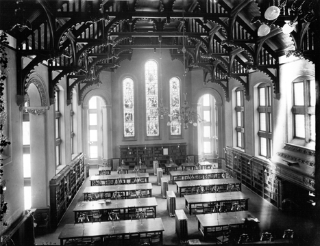 Interior Redpath Library, McGill University, circa1893